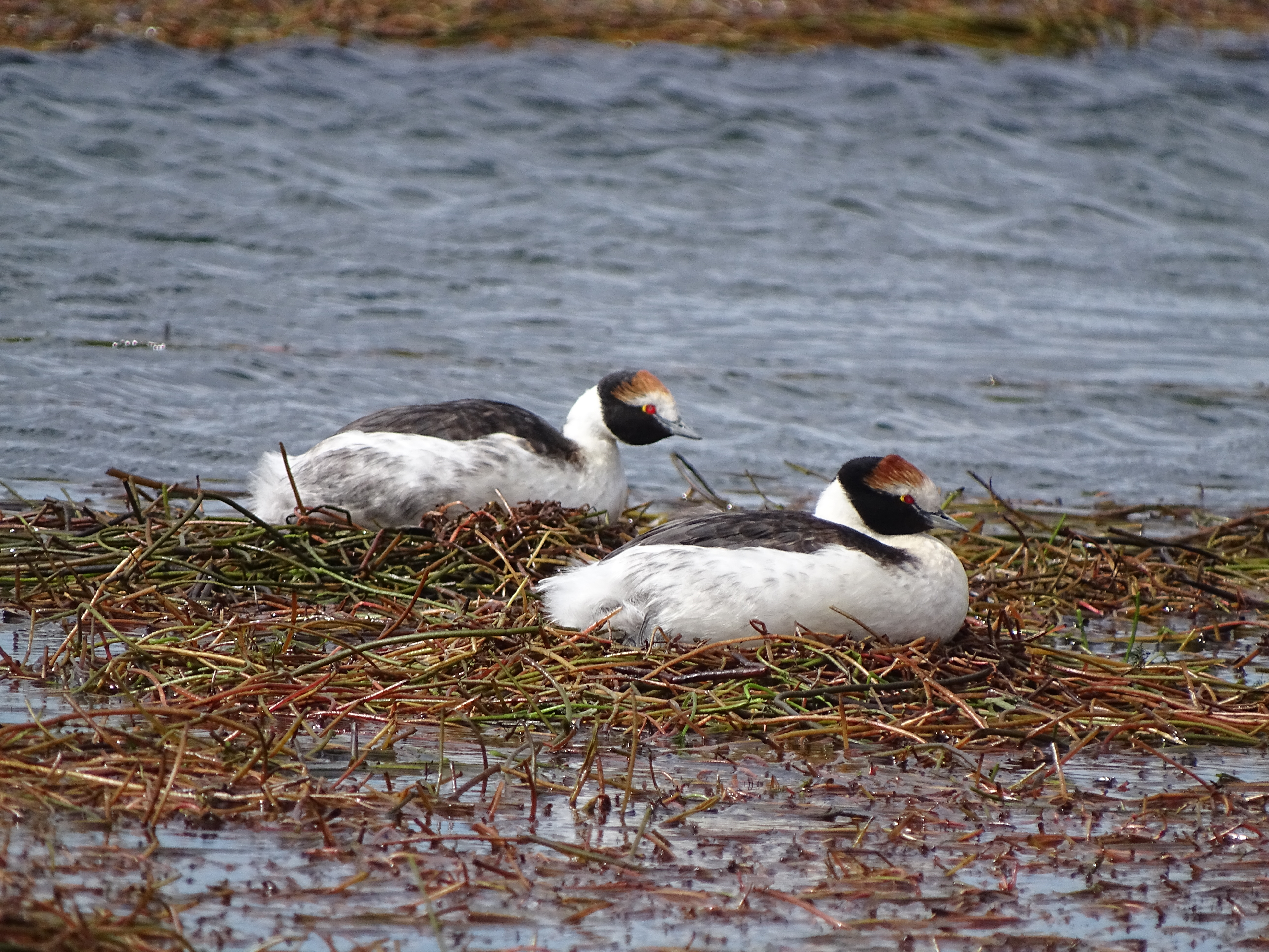 Podiceps gallardoi - Hooded Greebe - Macá tobiano. Patagonia National Park, Santa Cruz, Argentinas. Endemic bird of Argentina. Critically endangered. Parque Nacional Patagonia, Santa Cruz, Argentinas. Ave endémica de la Argentina. En peligro crítico.